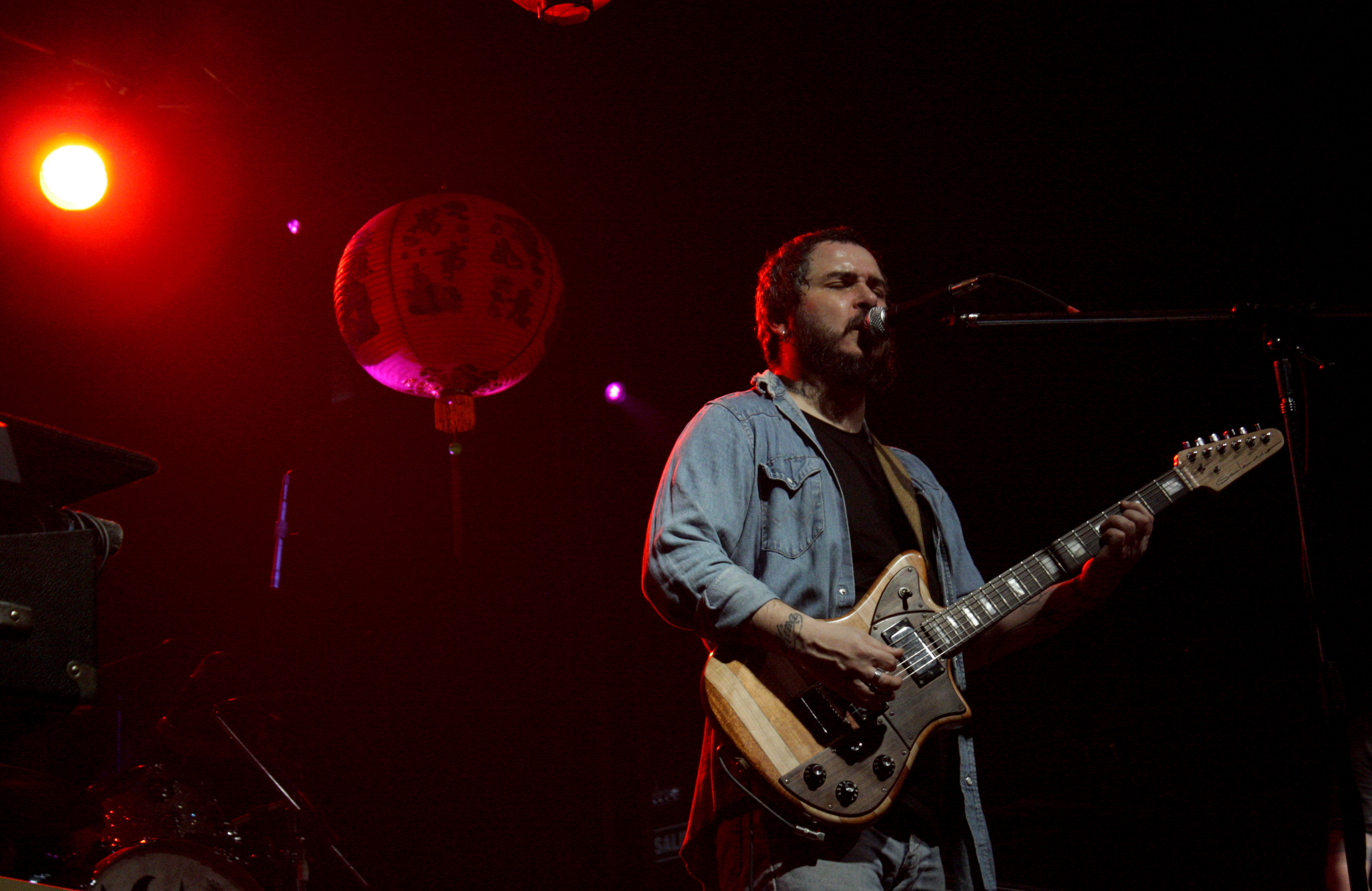 Ariel Minimal at Groove